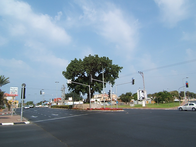 Old Shikma (Ficus sycomorus) in Ben Zvi road in Abu Kabir, Tel Aviv Yaffo